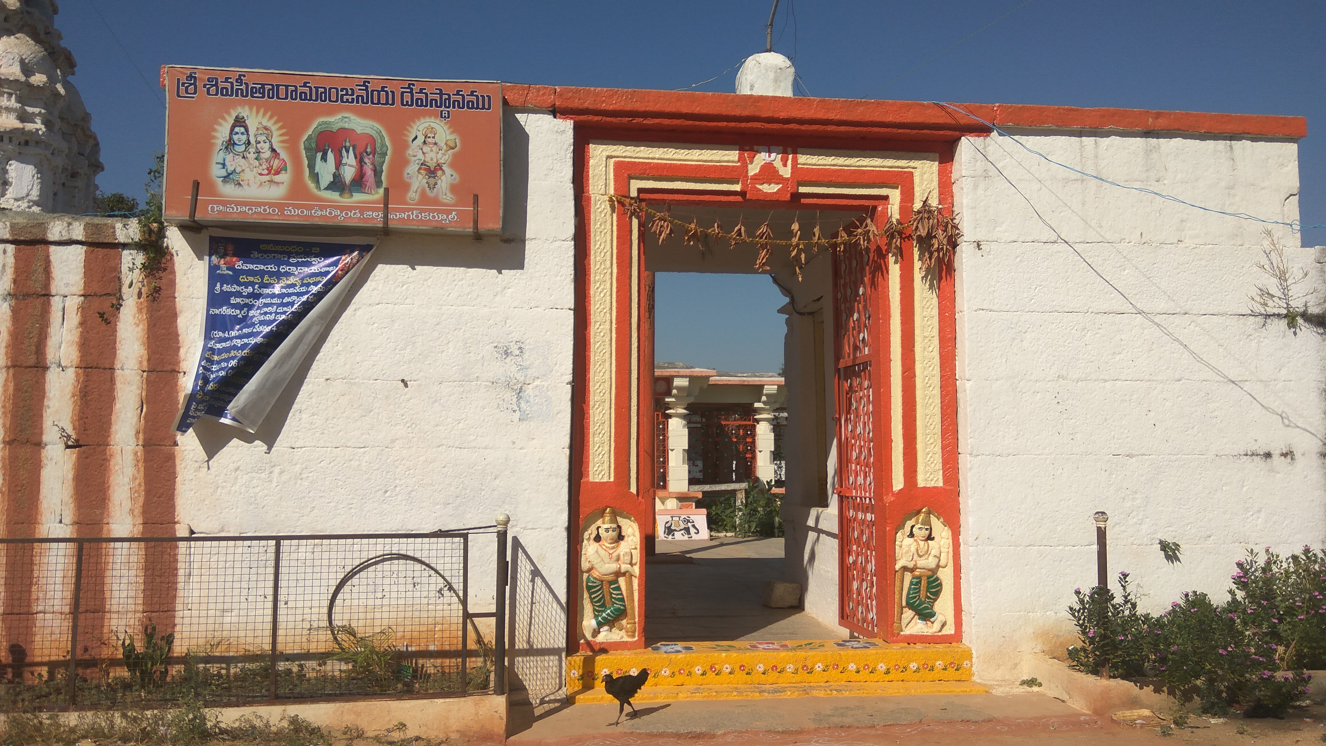 Entry Lord ShivaSeethaRamAnjaneya Temple in Madharam Village, Urkonda Mandal, Nagar Karnool District in Telangana State